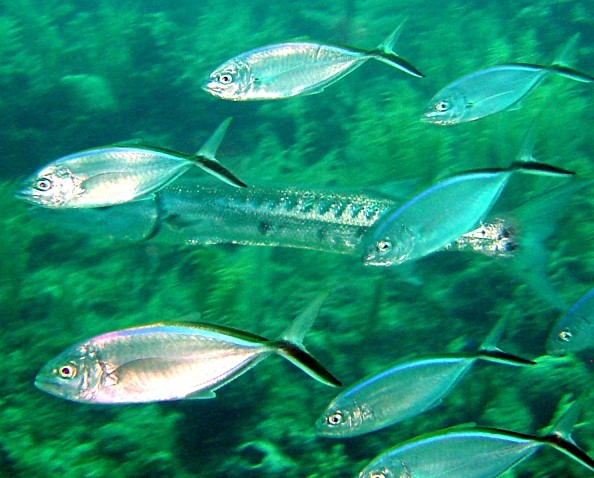 A school of bar jack, Carangoides ruber over a shallow reef. Image licensed by Spanish Government under cc-by-sa 2.5